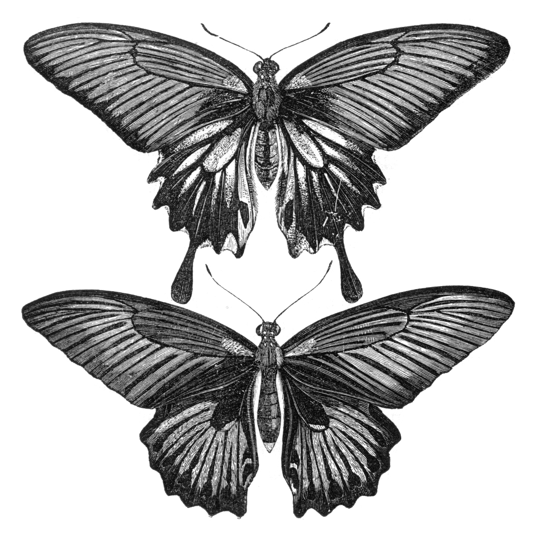 Caption reads "Different females of Papilio memnon"